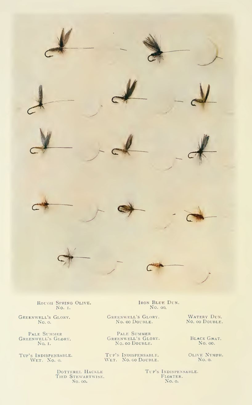 Color plate of trout flies from Minor Tactics of the Chalk Stream by G.E.M. Skues, 1910